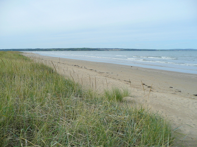 Red Wharf Bay Looking west at high tide.